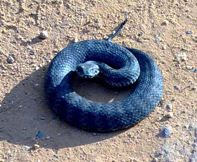 Acanthophis antarcticus Death adder on road, Jilliby SCA